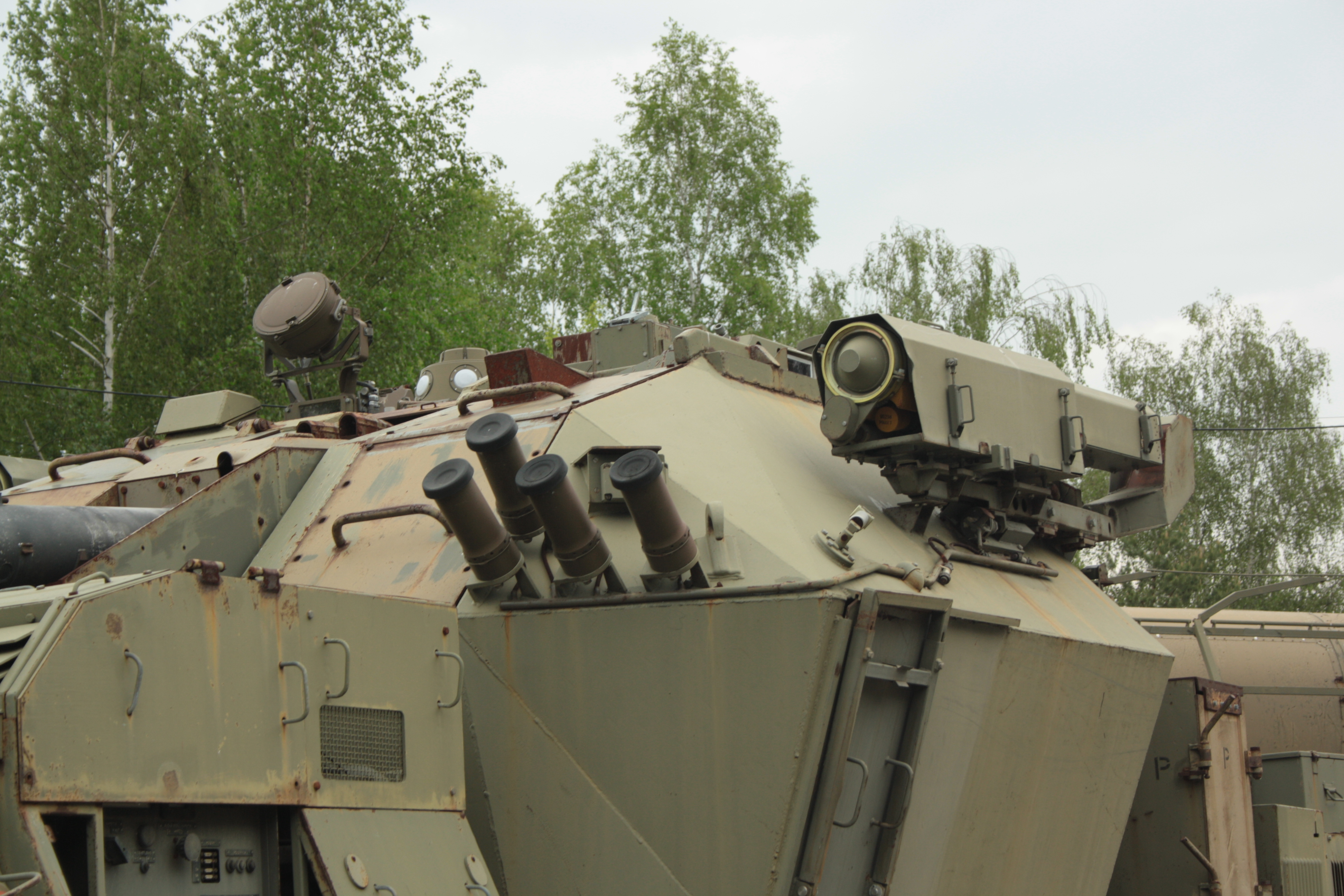 Czechoslovak anti-aircraft self-propelled complet STROP in Lešany military museum, Central Bohemian Region, CZ This photograph was taken with a DSLR from WMCZ's Camera grant. This picture was taken and/or got within the scope of the 'Acquiring scientific and specialized pictures' grant.